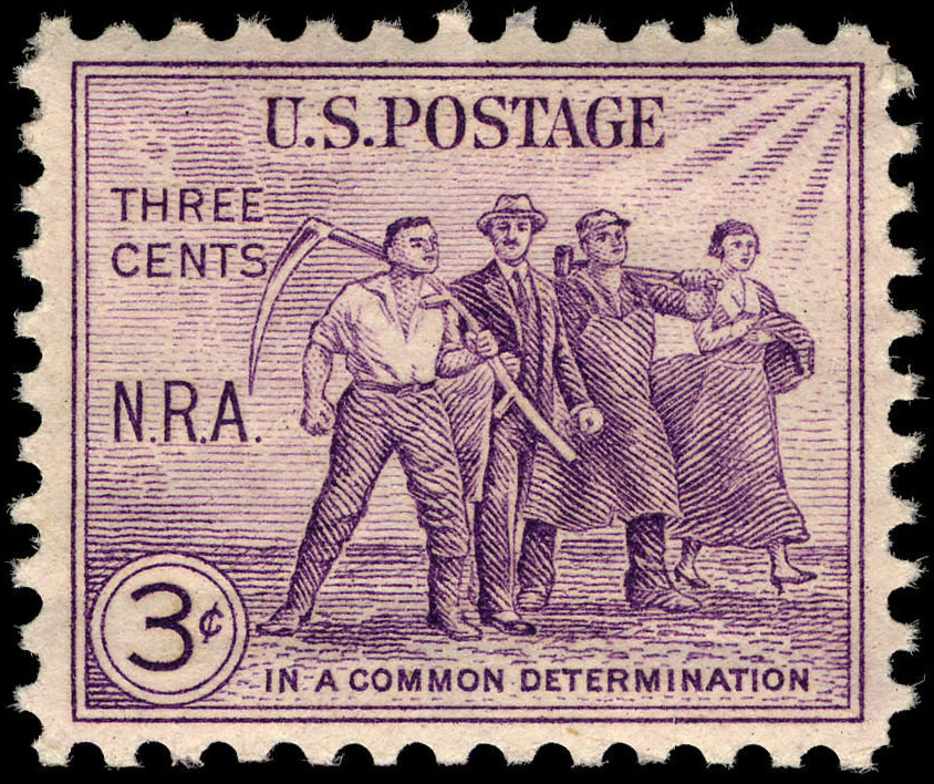 New Deal N.R.A. 3-cent 1933 issue U.S. stamp. The National Recovery Administration was a prime New Deal agency established by U.S. president Franklin D. Roosevelt (FDR) in 1933.